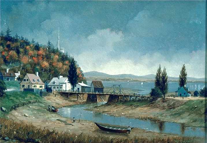 Painting, Cap Rouge, Quebec, Henry Richard S. Bunnett, 1886, Oil on canvas, 25.7 x 36 cm